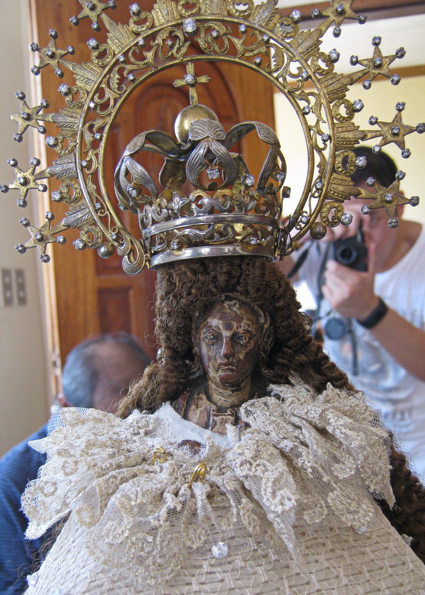 The original image of the Our Lady of Caysasay